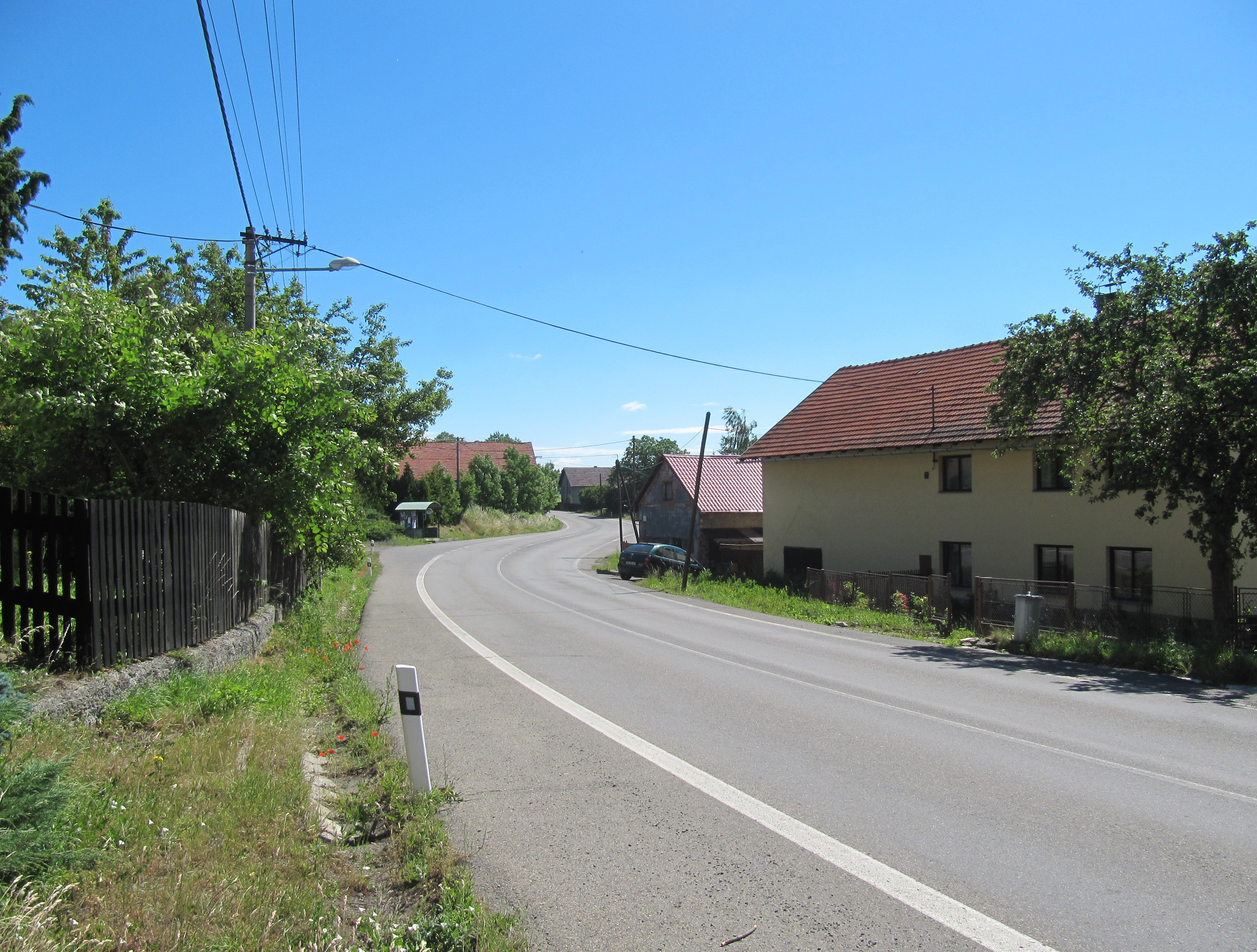 Fulnek, Nový Jičín District, Czech Republic, part Pohořílky.